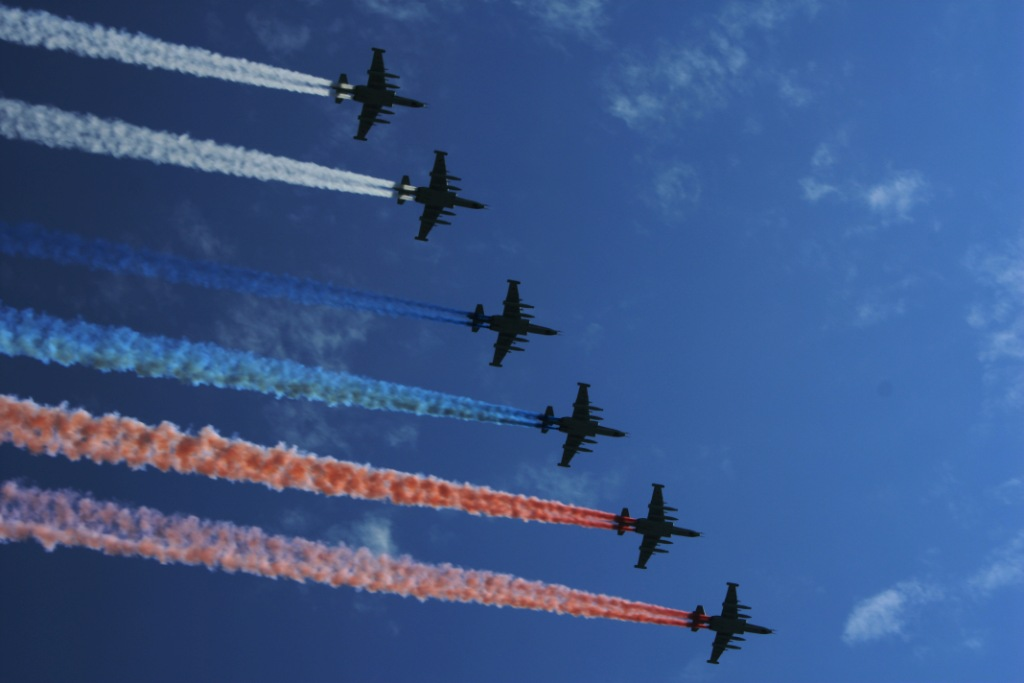 Su-25 "Russian Federation"